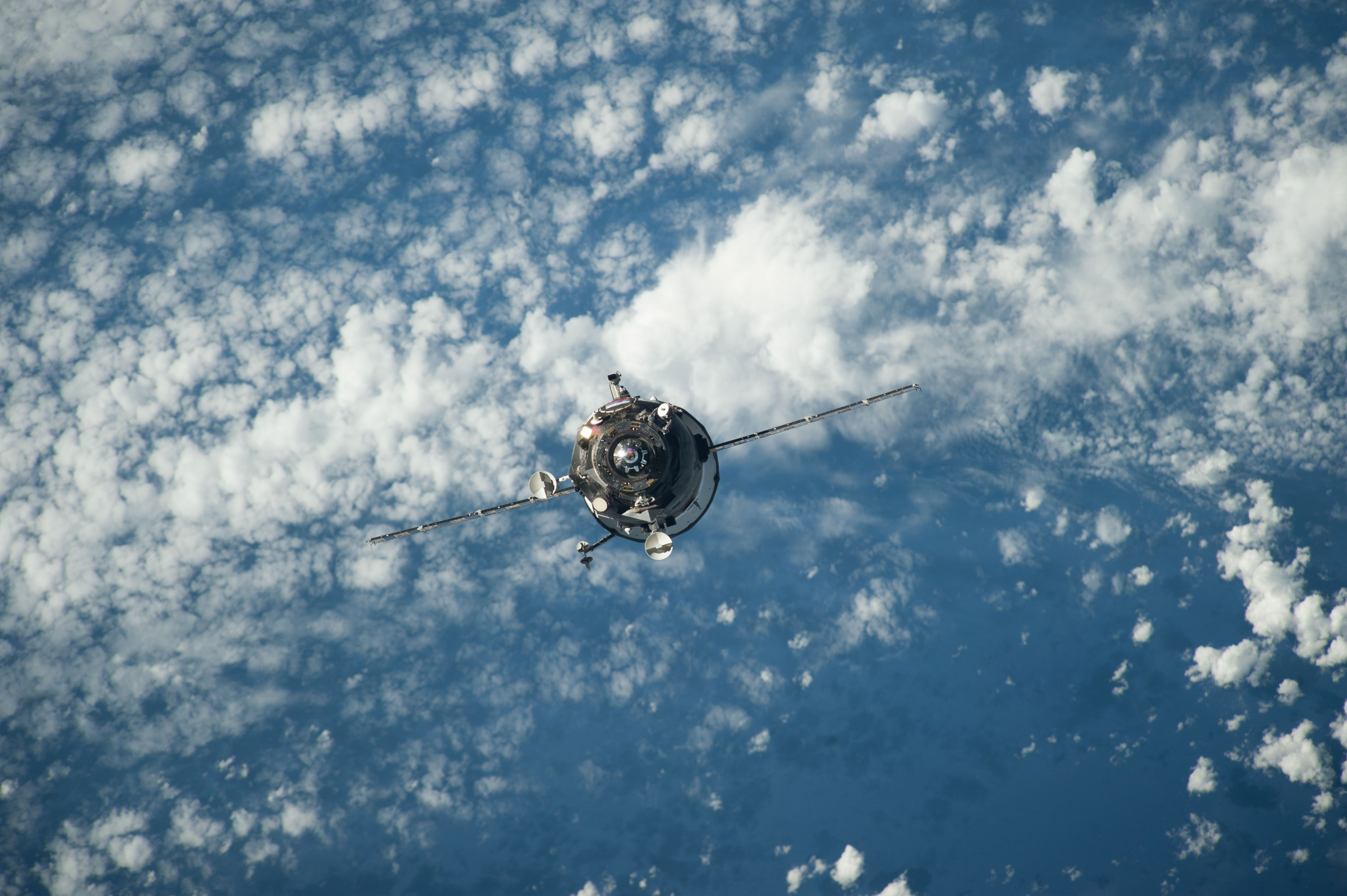 An unpiloted ISS Progress resupply vehicle approaches the International Space Station, carrying 2.8 tons of food, fuel and supplies for the Expedition 38 crew members. The Progress 54 spacecraft launched from the Baikonur Cosmodrome in Kazakhstan at 11:23 a.m. (10:23 p.m. Baikonur time) and completed its four-orbit trek at 5:22 p.m. (EST) when it docked automatically to the station's Pirs docking compartment.